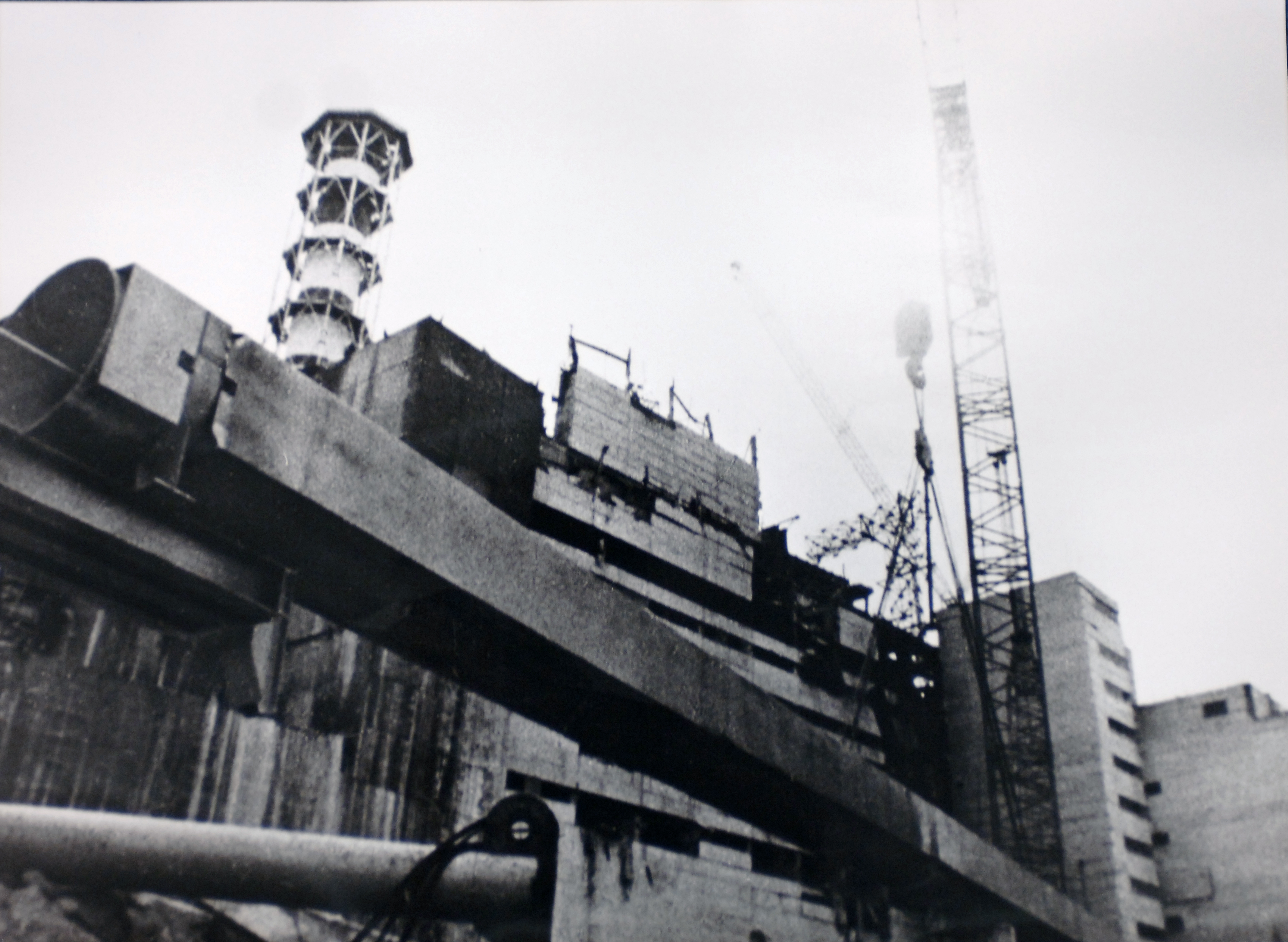 Historical collections of the Chernobyl accident from the Ukrainian Society for Friendship and Cultural Relations with Foreign Countries (USFCRFC). Preparatory steps for mounting the sarcophagus. Copyright: IAEA Imagebank Photo Credit: USFCRFC